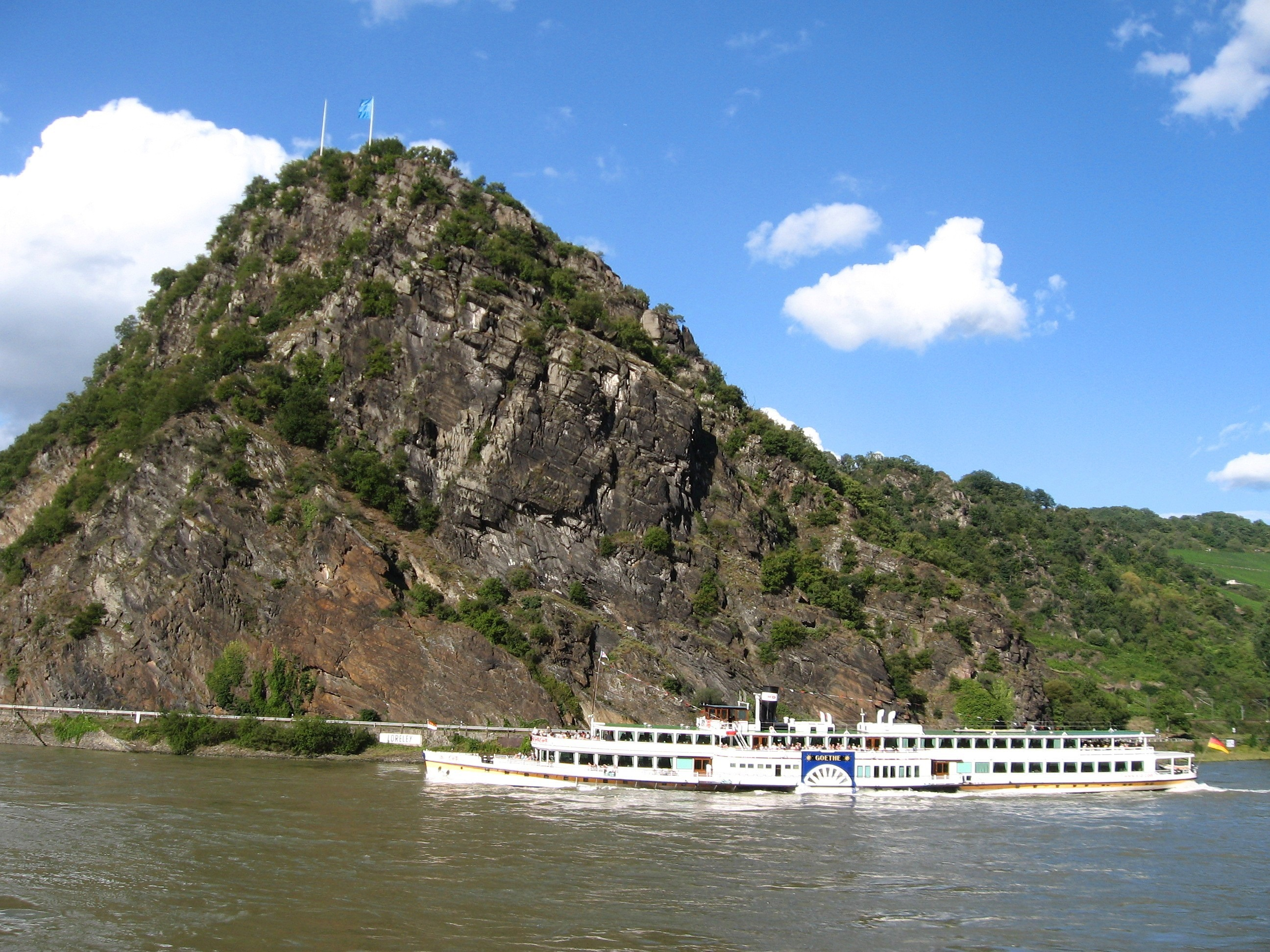 View from the left Rhine side to the mountain Loreley.